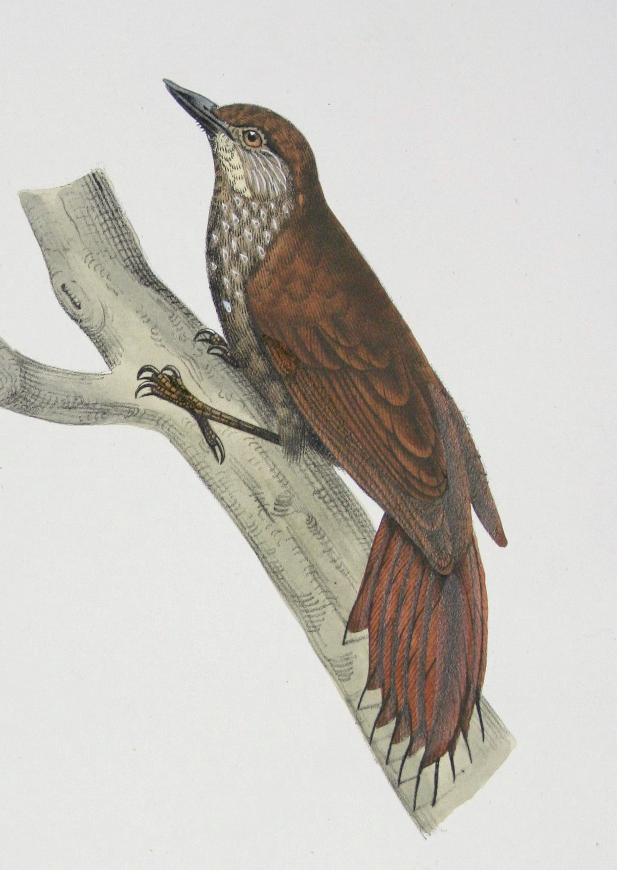 Glyphorynchus castelnaudii = Glyphorynchus spirurus castelnaudii